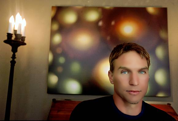 This picture of Michael Davidson was taken on April 19, 2009 by Mark Costantini during an interview with Davidson by Delfin Vigil from the Chronicle Staff Writer.